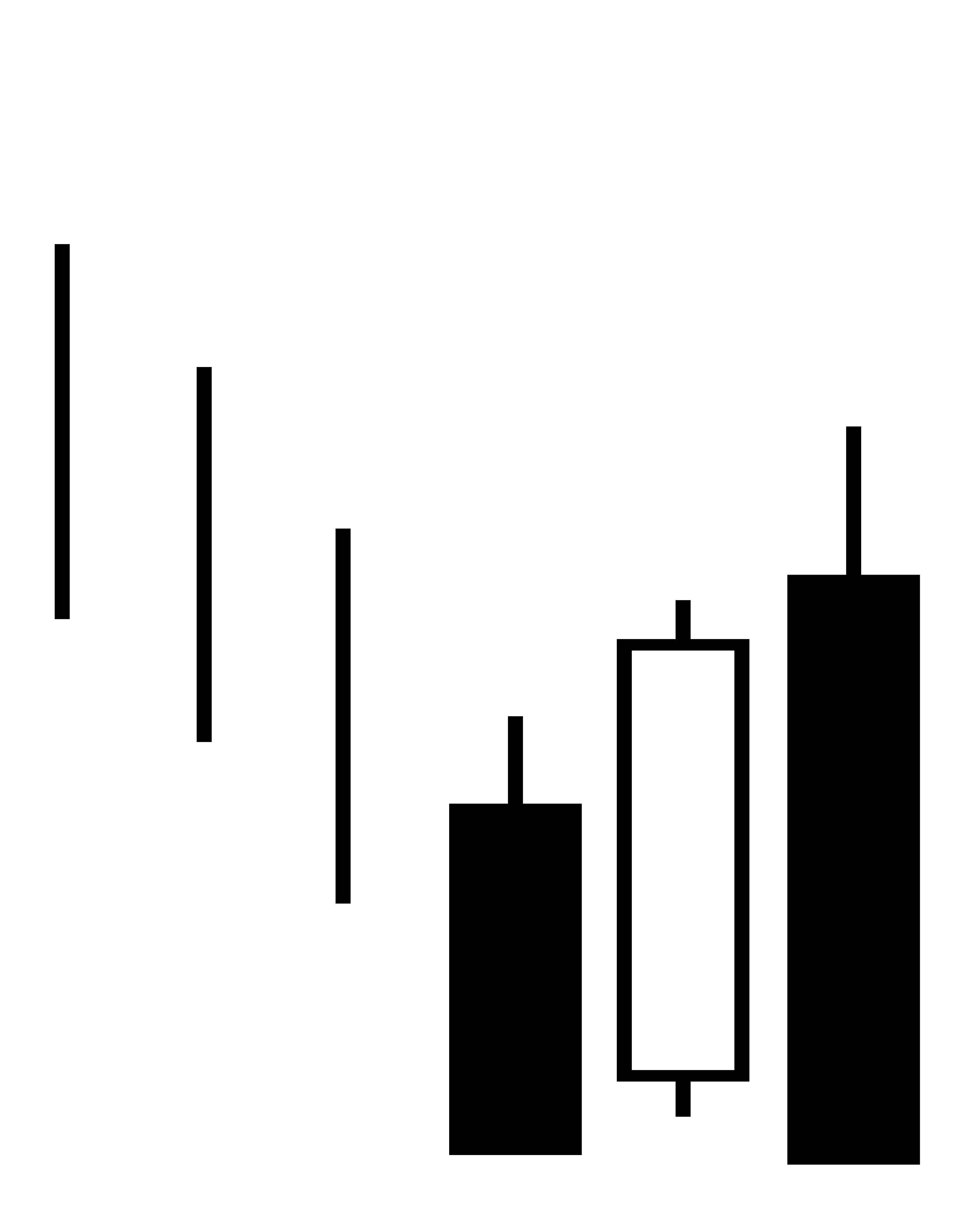 Bullish Stick Sandwich